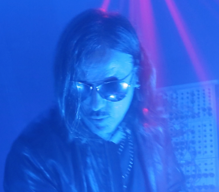 Chris Pitman, 2015,Beatrazr, guns n roses, Musician, live performance, EDM